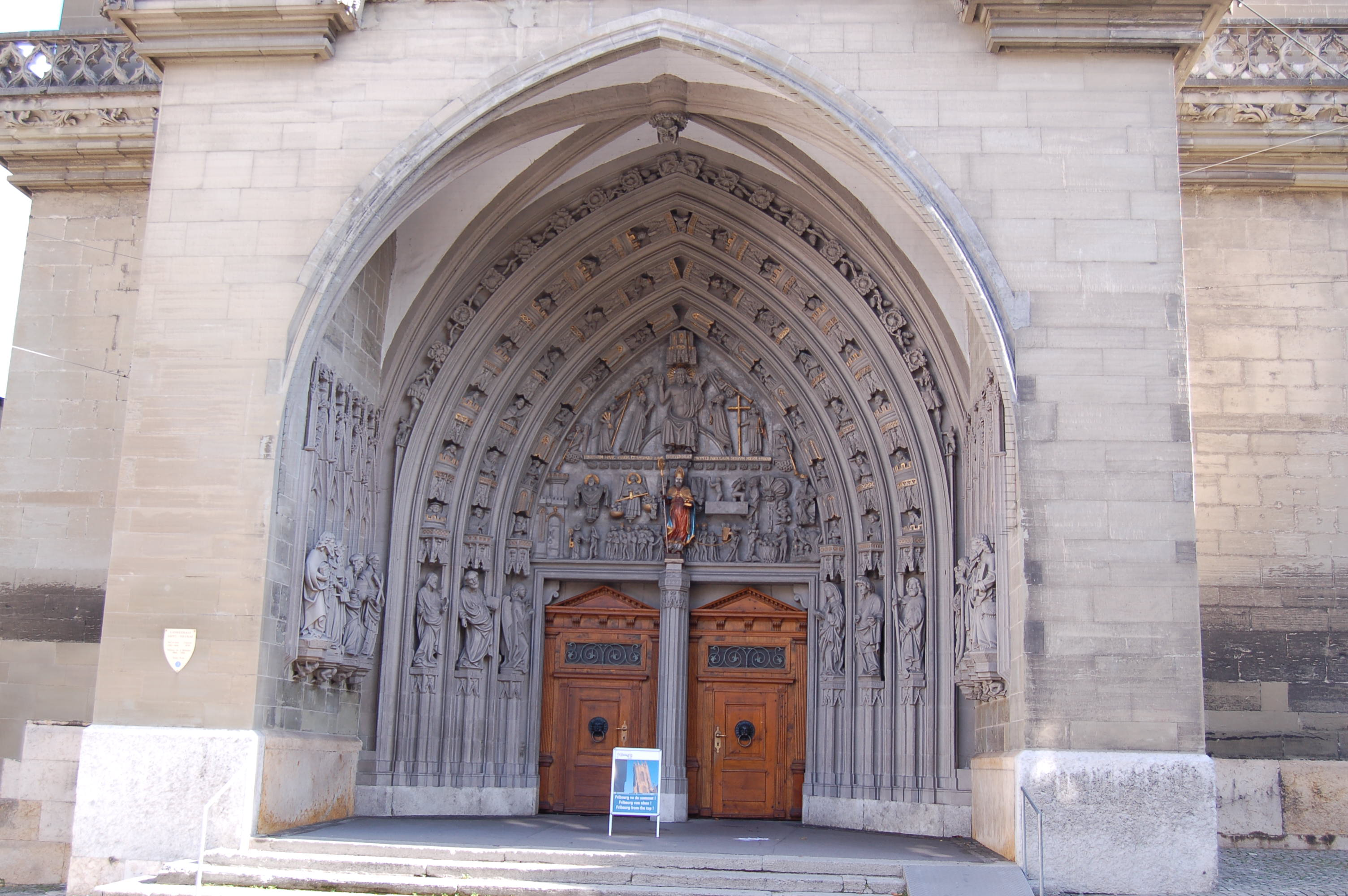 Fribourg, Switzerland